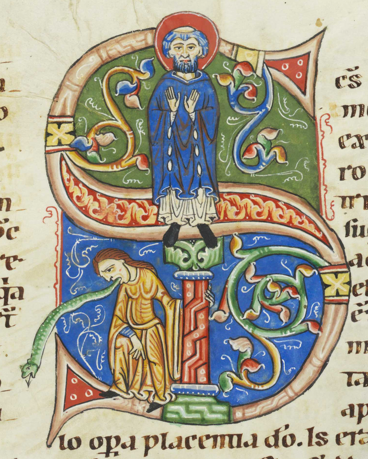 Illumination from the Passionary of Weissenau (Weißenauer Passionale); Fondation Bodmer, Coligny, Switzerland; Cod. Bodmer 127, fol. 234r